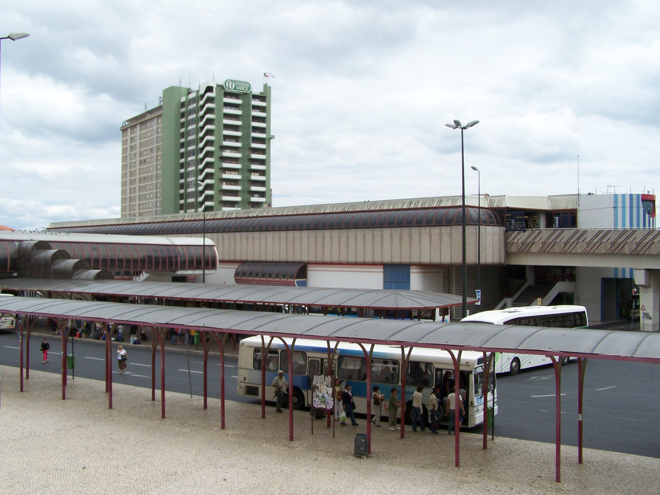 Lisbon's metro station Campo Grande, Portugal